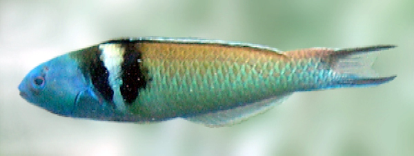 Blue-headed wrasse, San Pedro, Belize Barrier Reef